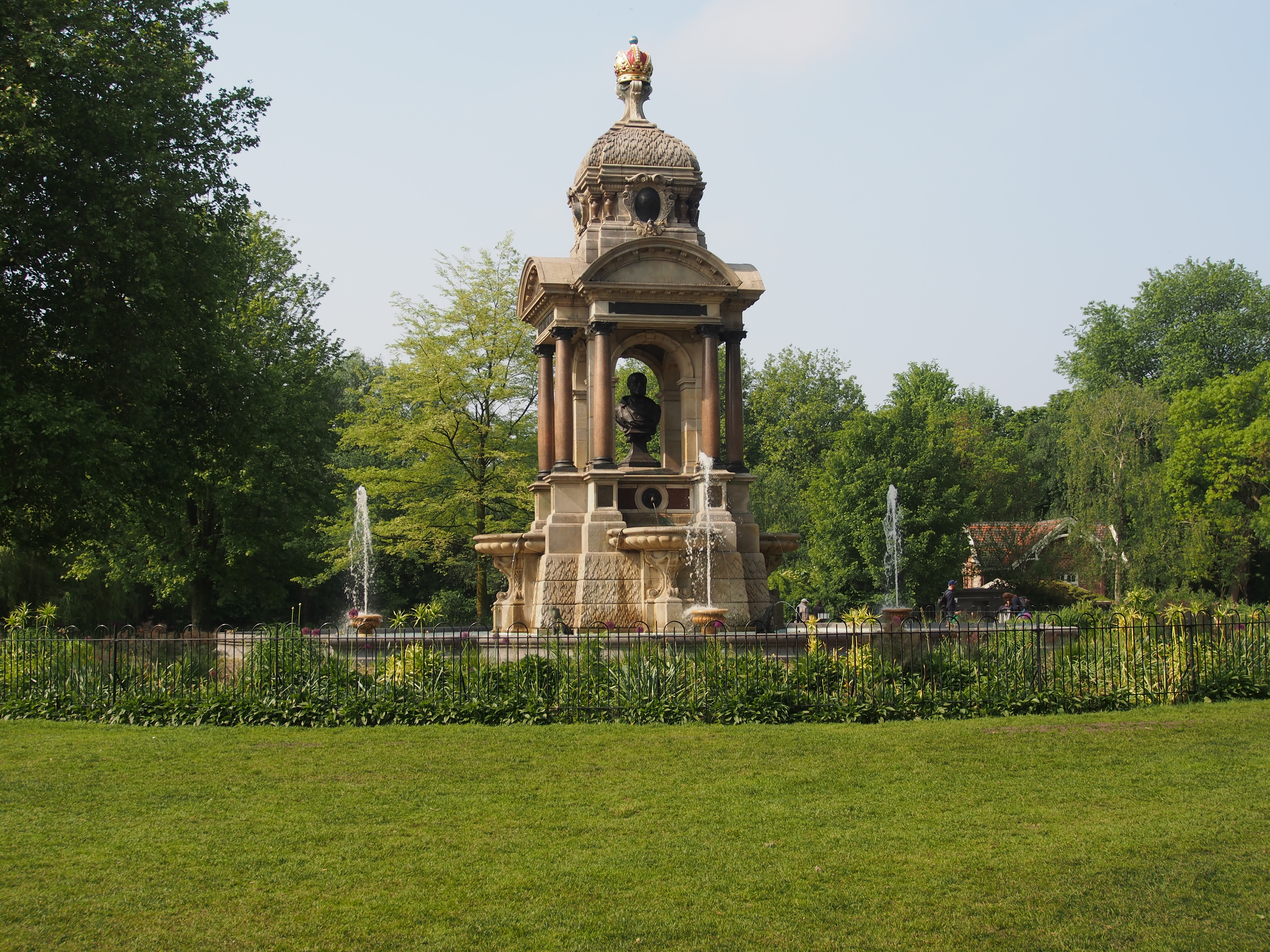 Photographed in Amsterdam.